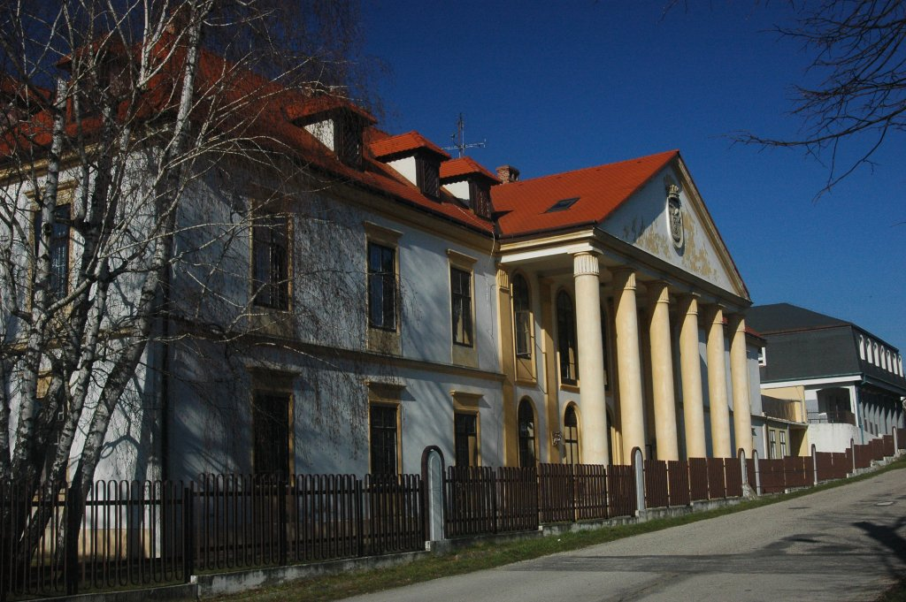 Rohov, manour house, 19th st.